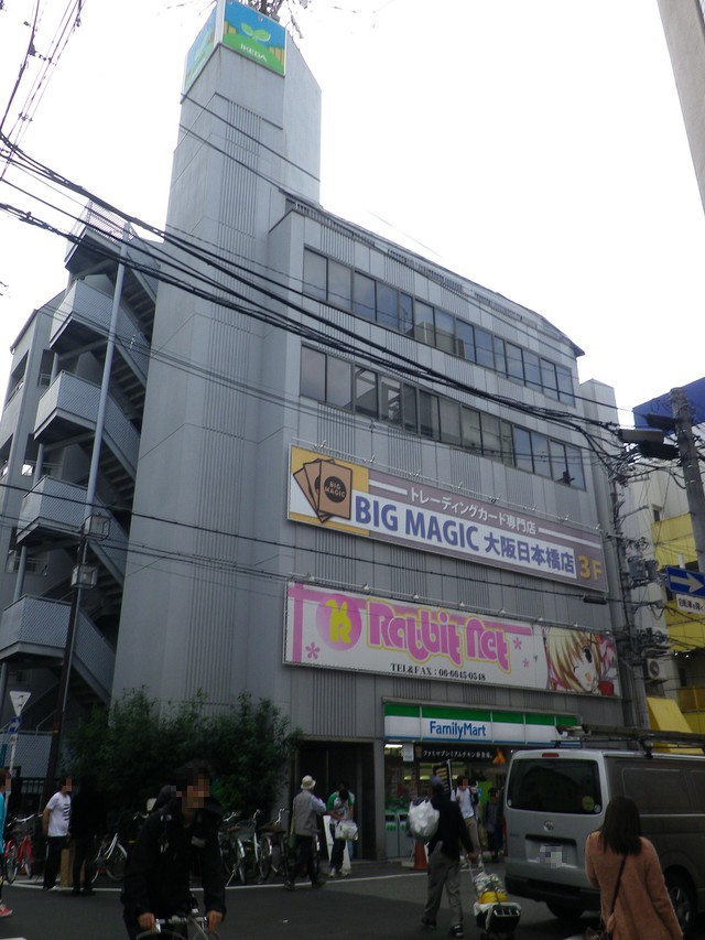 Ikeda Building, Nippombashi, Osaka, Japan